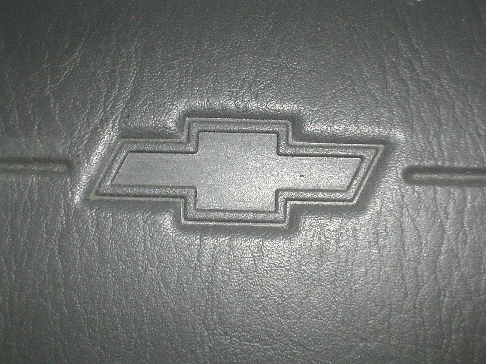 Closeup shot of my steering wheel, testing my new 512MB CF card ($42!!)